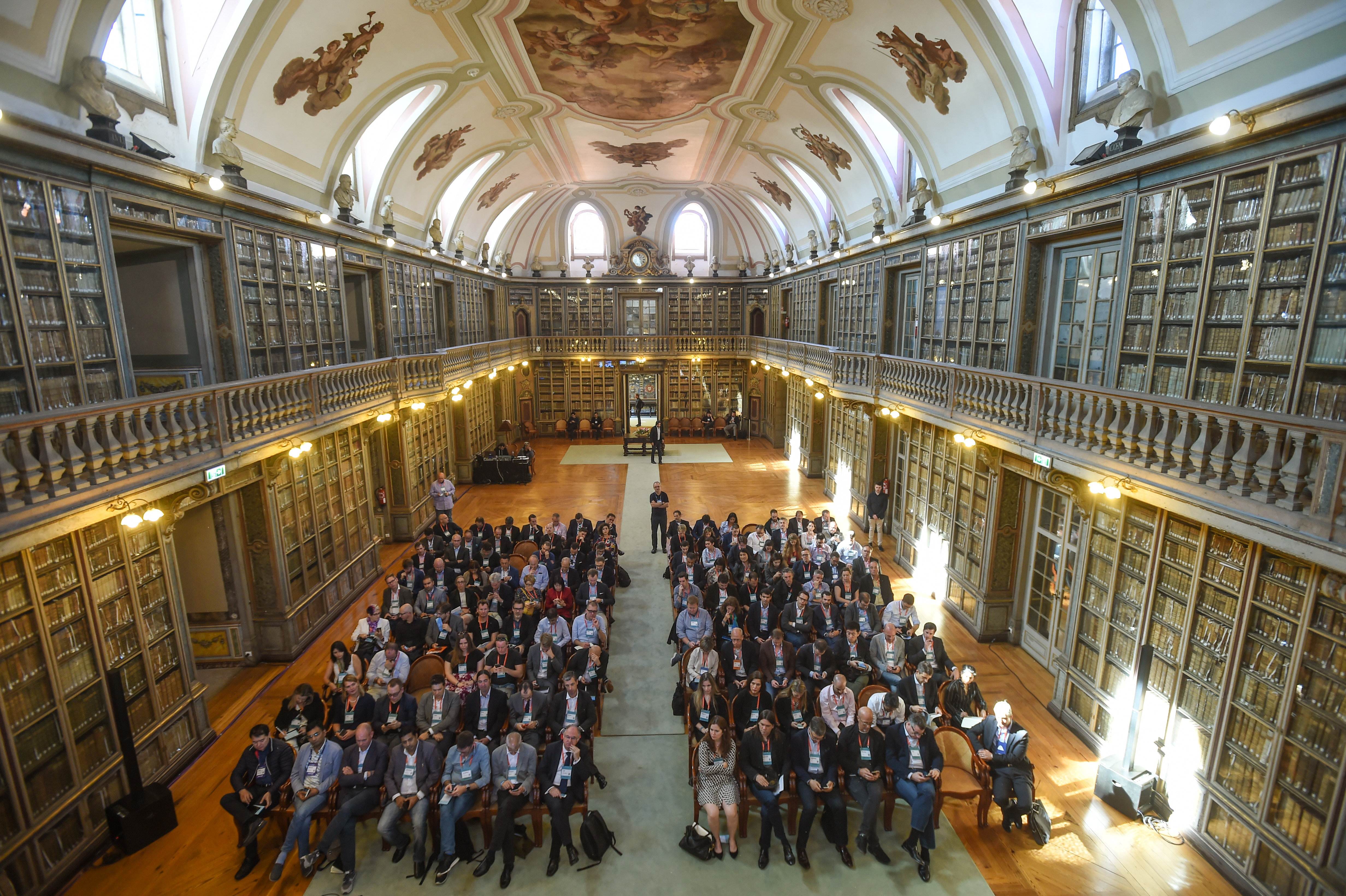 6 November 2017; A general view of attendees at the Corporation Innovation Summit during Web Summit 2017 at Academia das Ciências de Lisboa. Photo by David Fitzgerald/Web Summit via Sportsfile